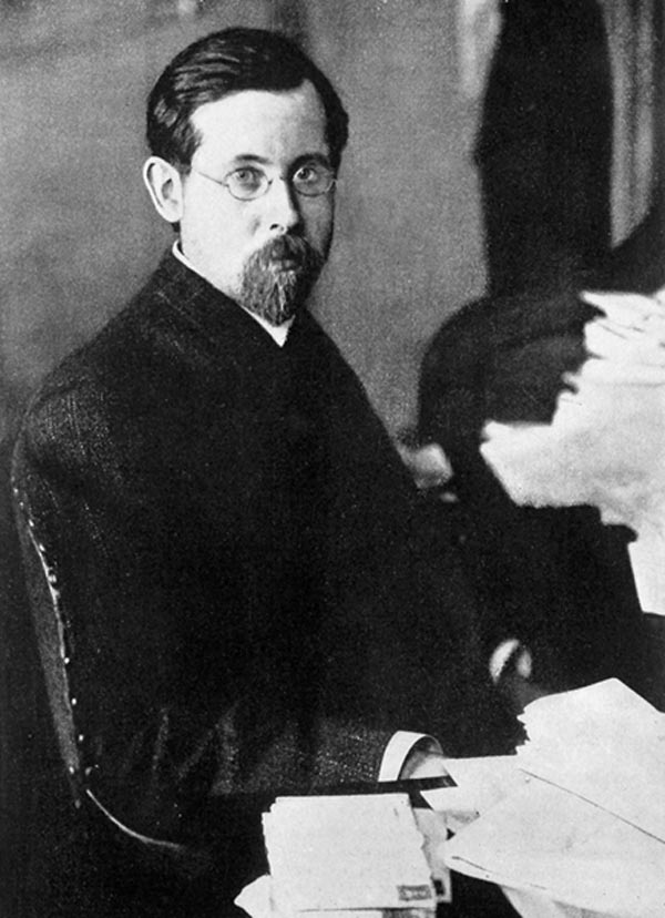 A picture of physicist Thaddeus Cahill.